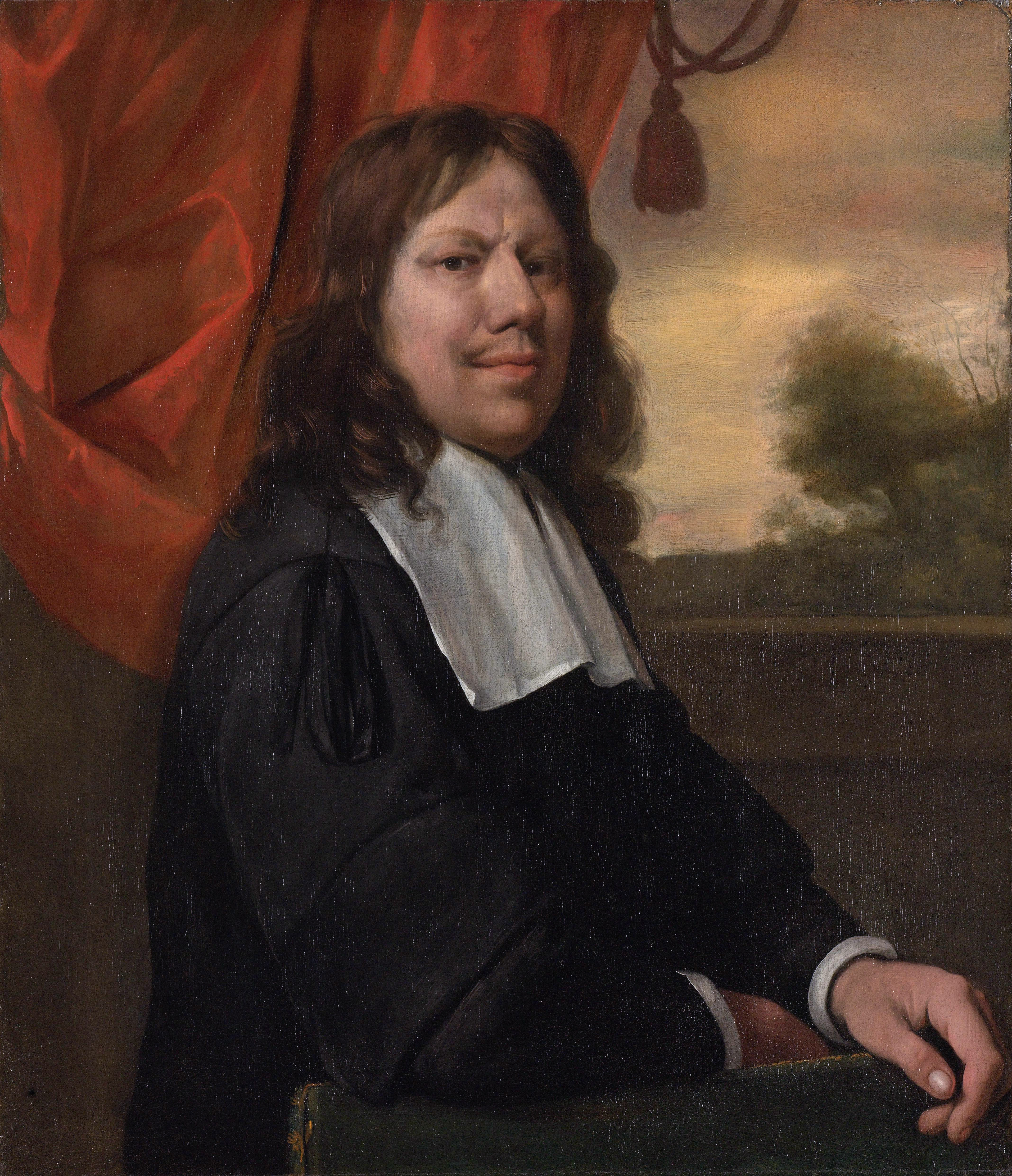 Jan Steen portrayed himself as a self-assured artist, in decorous black, seated against a red curtain and tassel. With this type of self-portrait Steen followed the example of famous artists such as Titian and Rembrandt. The portrait is an exception in his oeuvre. He usually included himself in other paintings, in a comic role.